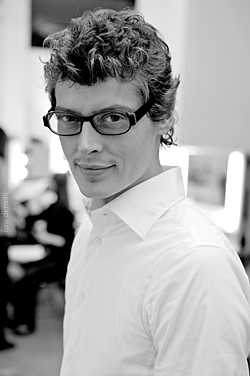 Portrait of Bruno Pieters, photographed by Matti Hillig. The photo was taken backstage in the former Airport Tempelhof, Berlin, shortly before a fashion show by Hugo Boss in January, 2008. Bruno Pieters is a Belgian fashion designer based in Antwerp. He designed for his own label and was art director for Hugo Boss. High-resolution versions of this and more photos are available. Please contact me